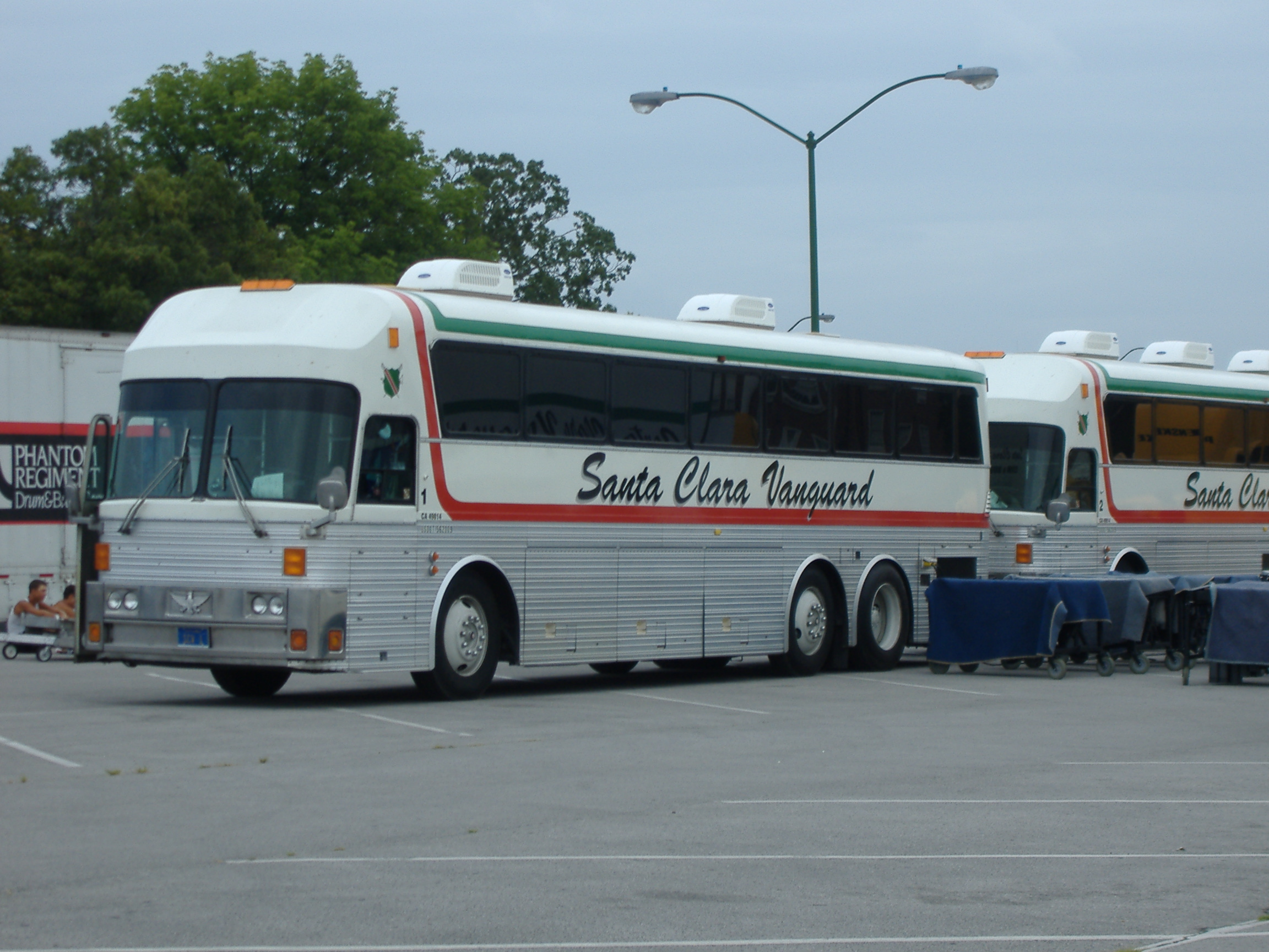 A photograph of one of the member buses, taken at the Cookeville, TN DCI contest in 2006.